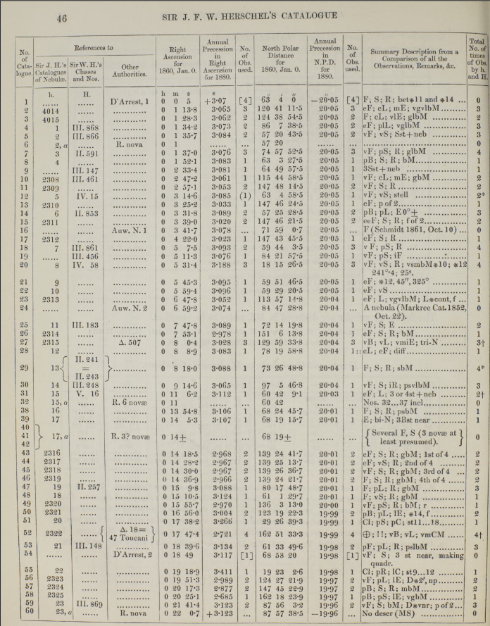 First page of the General Catalogue of Nebulae and Clusters